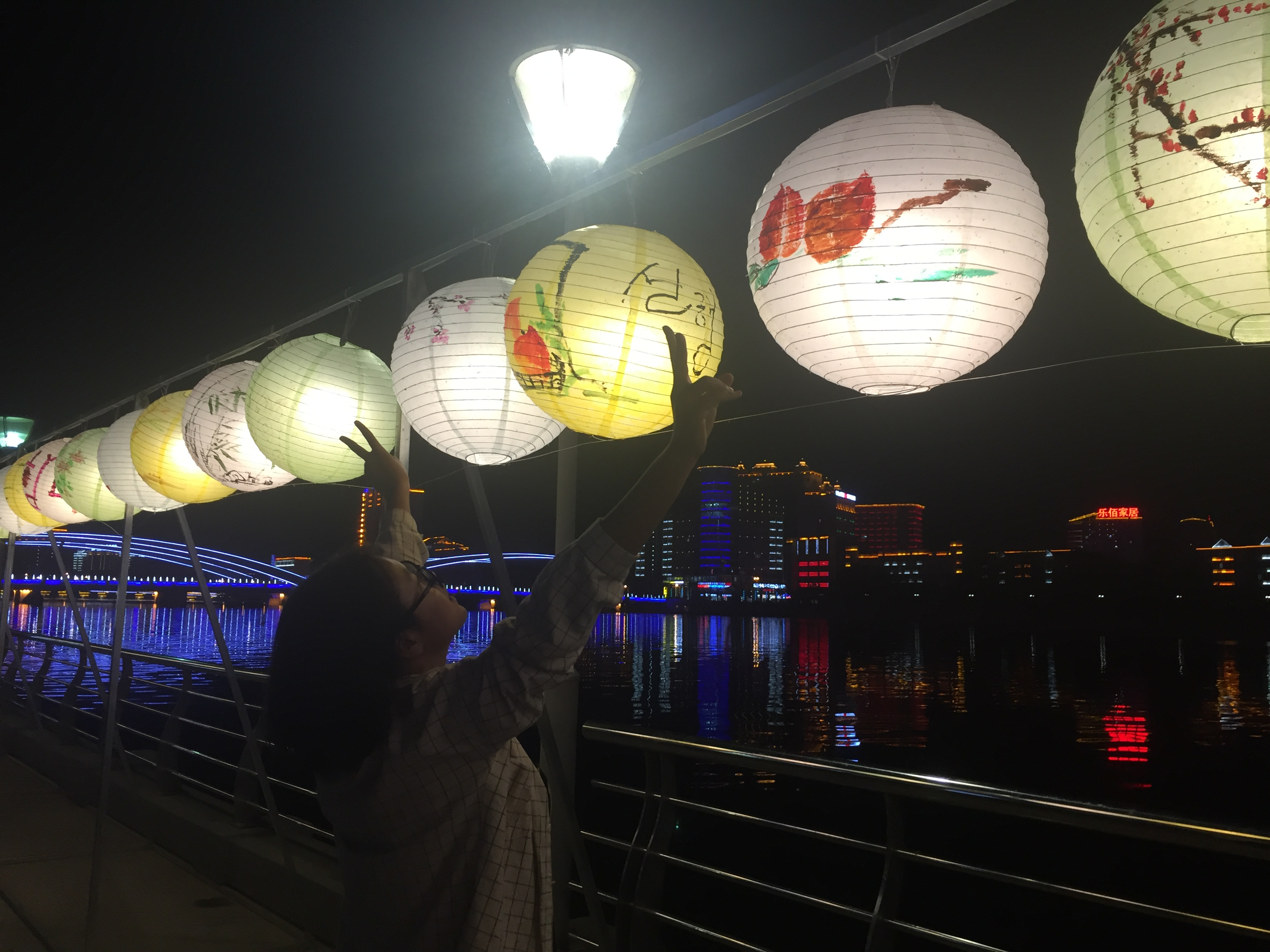 2017 CXZ Light Festival - Lanterns